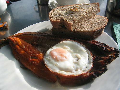 Kippers for Breakfast at Burton Bradstock